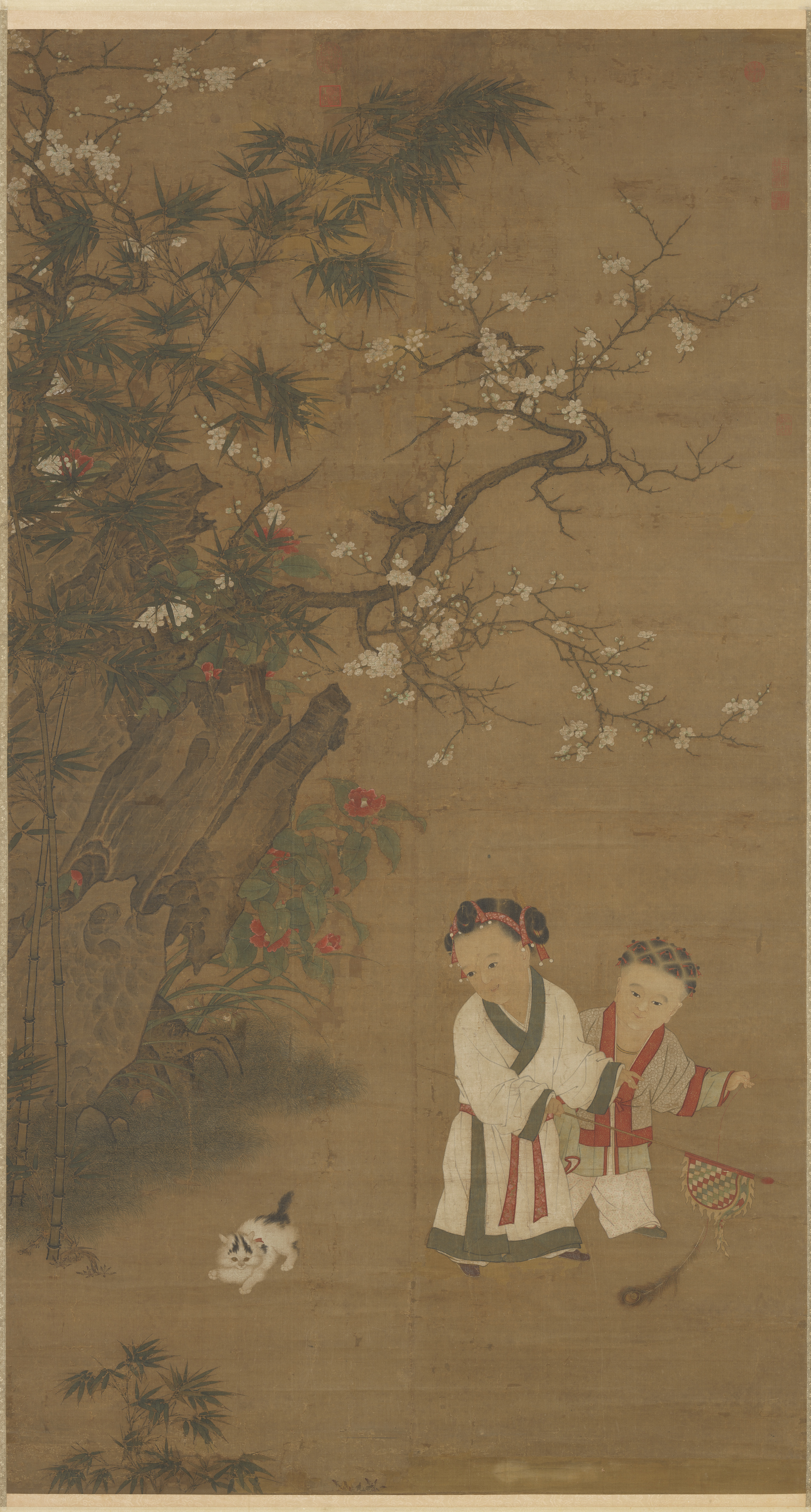 The painting shows two children waving a peacock feather banner like the one used in Song Dynasty dramatical theater to signal the acting general or leader of troops. If not displayed in the home of a wealthy gentry figure, this painting could very well have been an art piece of the royal family's residence in Hangzhou.